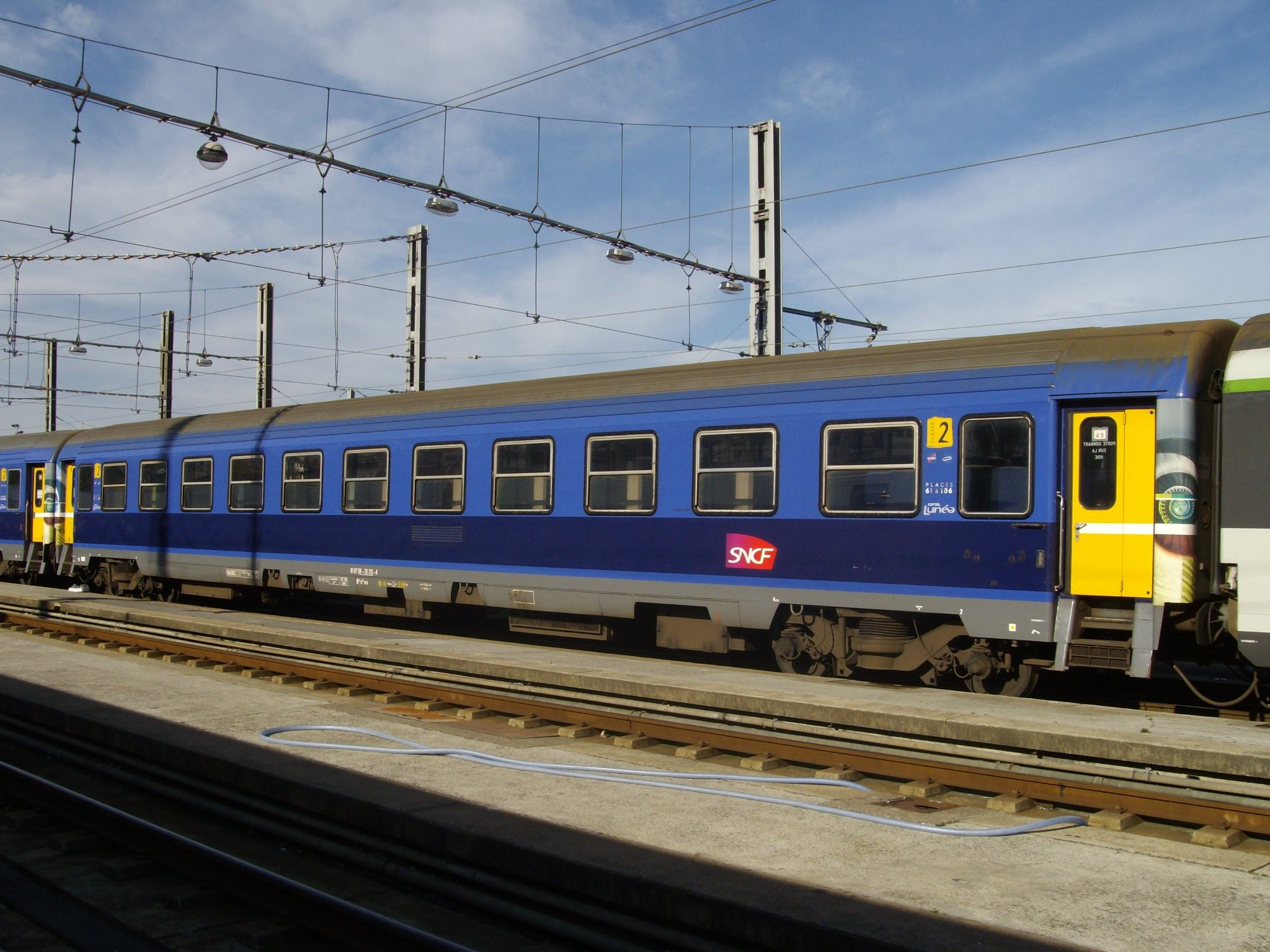 SNCF Corail couchette car Lunéa